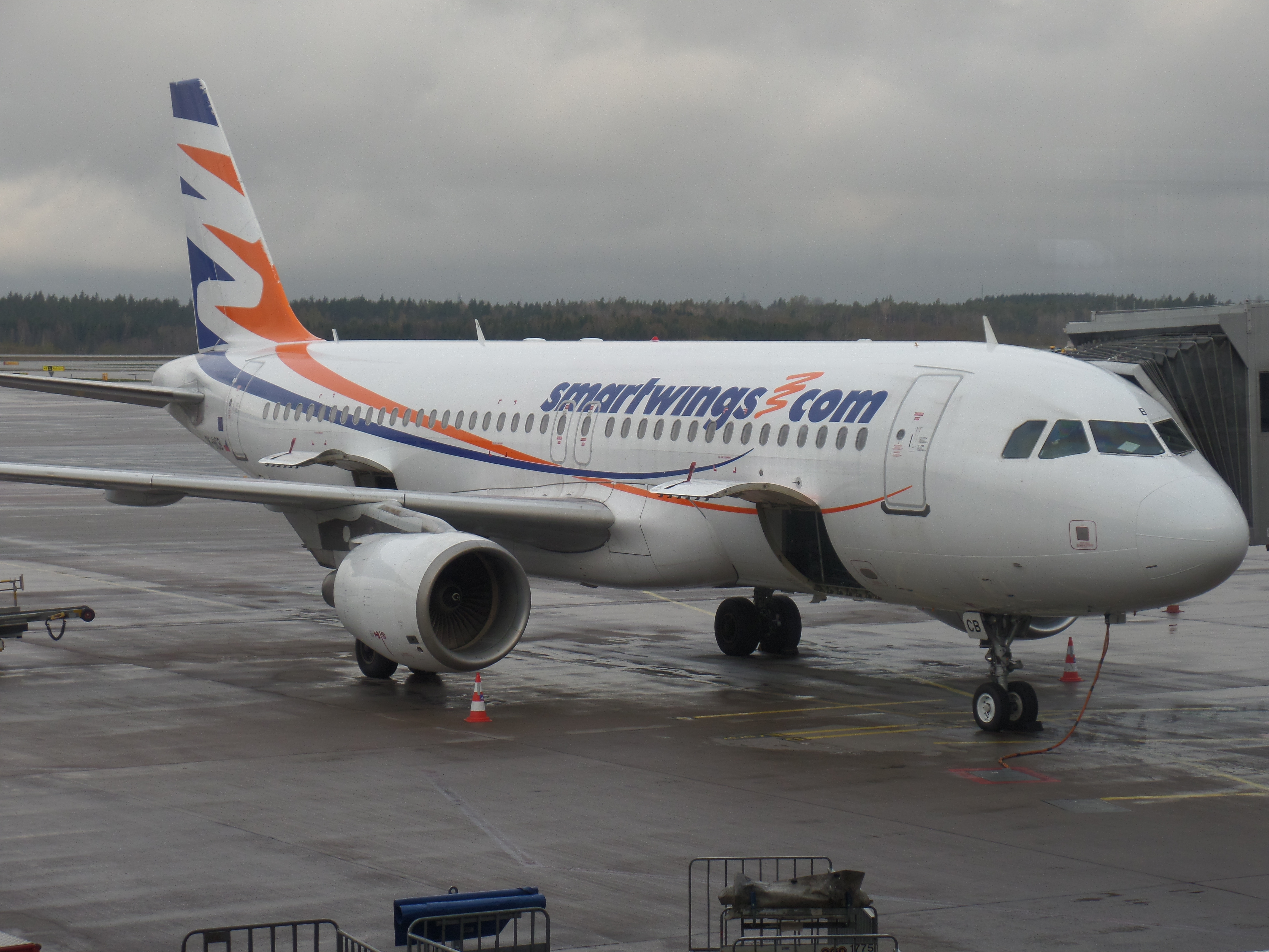 SmartWings Airbus A320-214 OK-HCB at Stockholm Arlanda Airport on May 1, 2015.